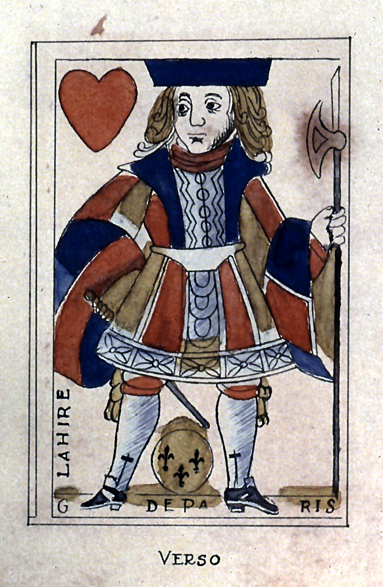 Playing card, which value for money (detail), attributed to Henri Beau, watercolor and Indian ink, 43.2 x 44.8 cm. Public Archives of Canada, Division of iconography, Ottawa (negative no. C17059)..